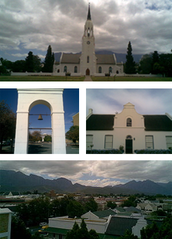 A compilation of images (all released under GNU Free Documentation License by Clanchief) of the town of Worcester in South Africa. Top: Dutch Reformed Church. Center left: Slave bell. Center right: Old house on Russell Street built in 1836. Bottom: View of Worcester looking north-east.